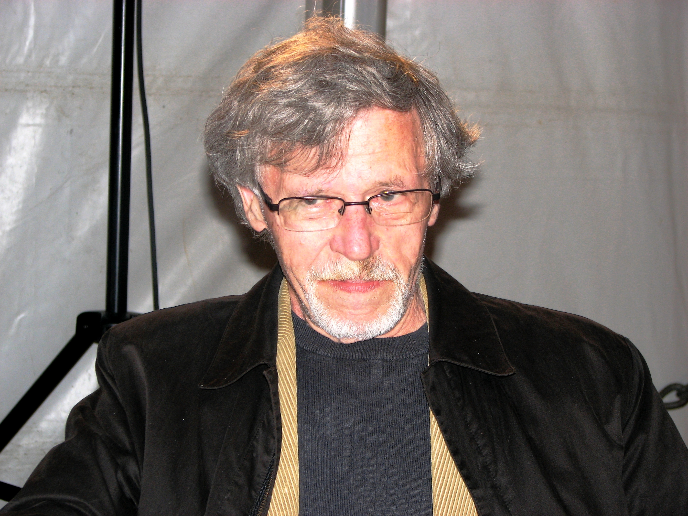 Fredrik Skagen performing in Tallinn Literature Festival HeadRead